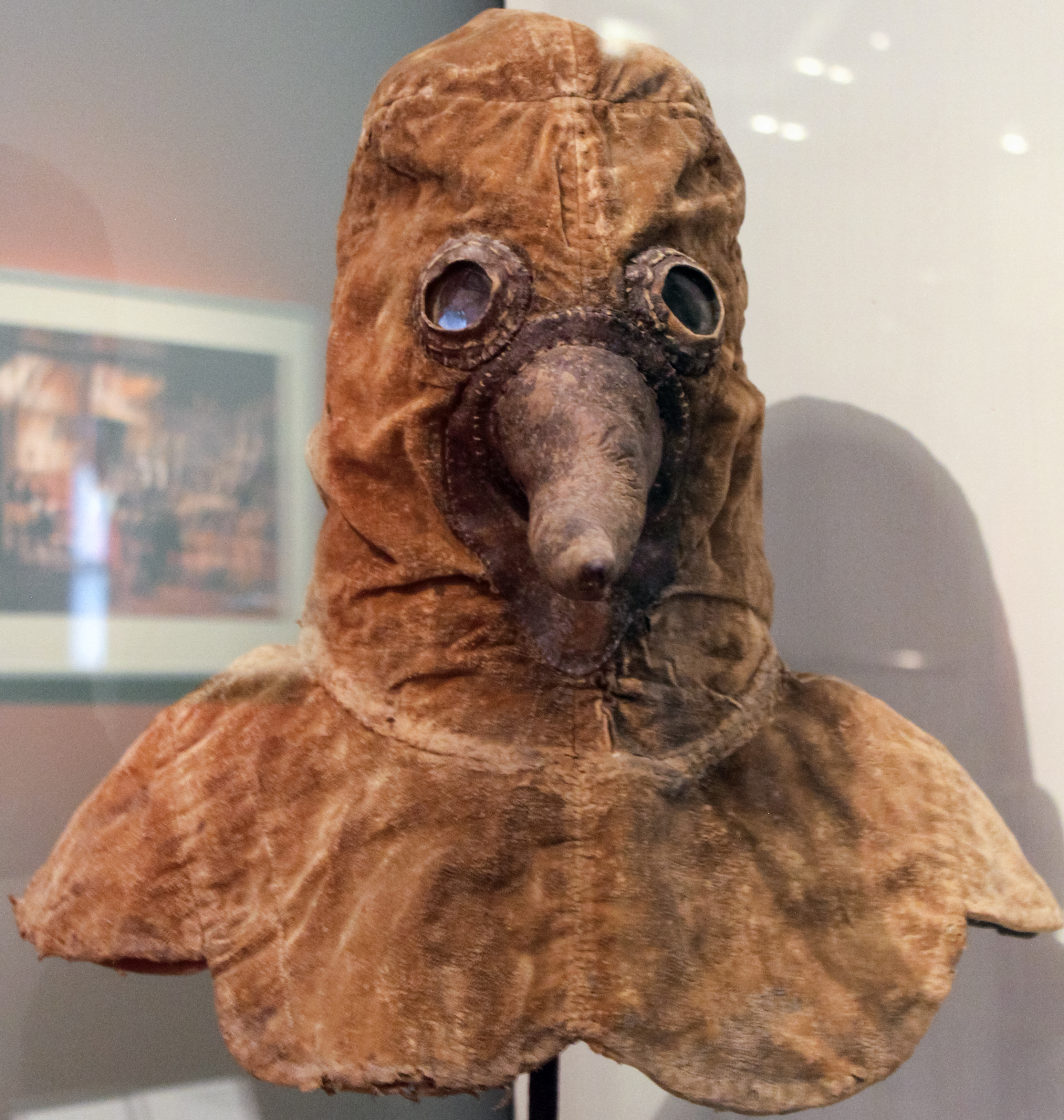 Plague cover. As protection against the disease doctors wore a leather gown with a wrap and a mask. Herbs or sponges soaked with vinegar were put into a beak-like protrusion in order to filter the air.